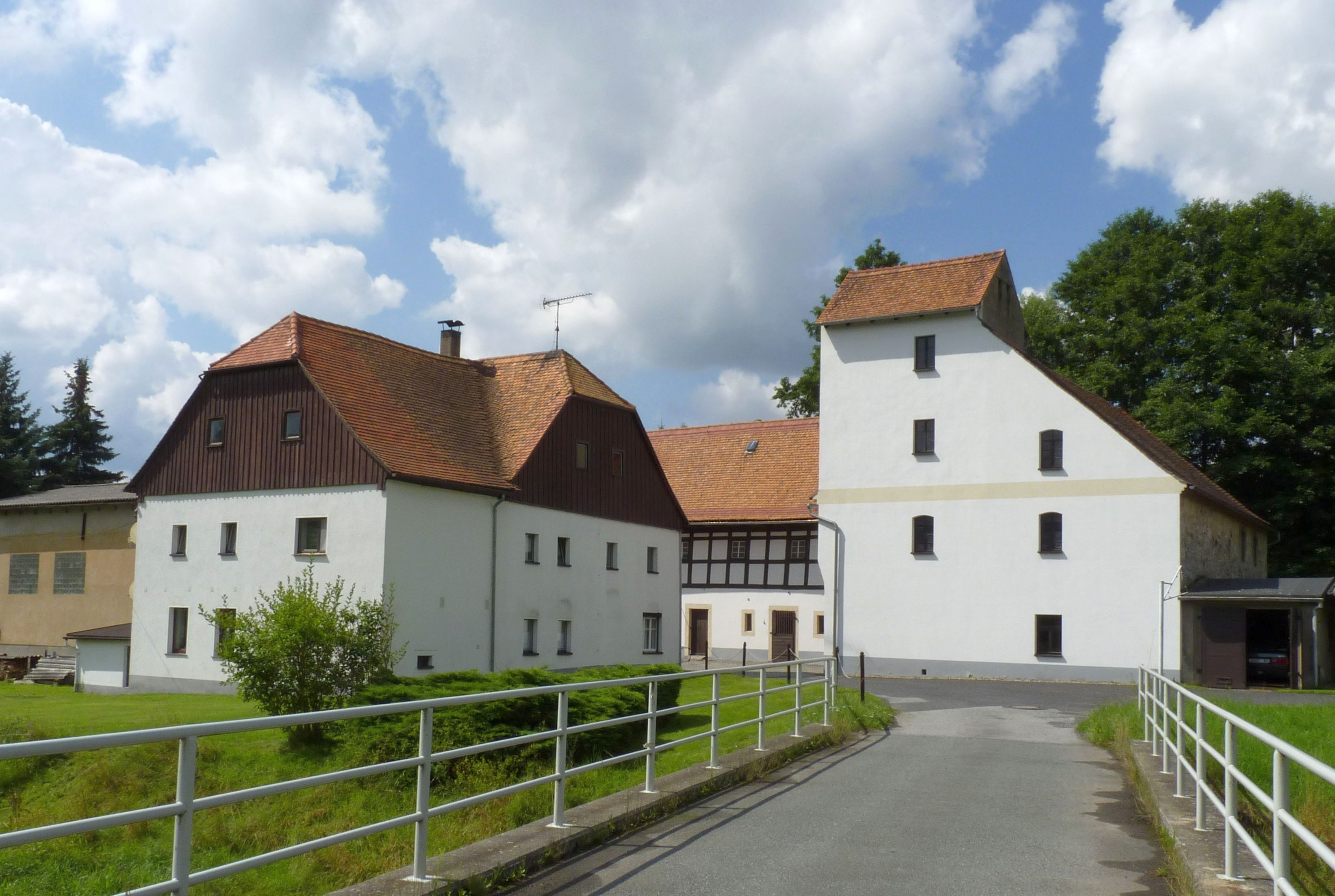 The waterpowered mill "Nieder Mühle" in Niederoderwitz, Oderwitz, Germany.